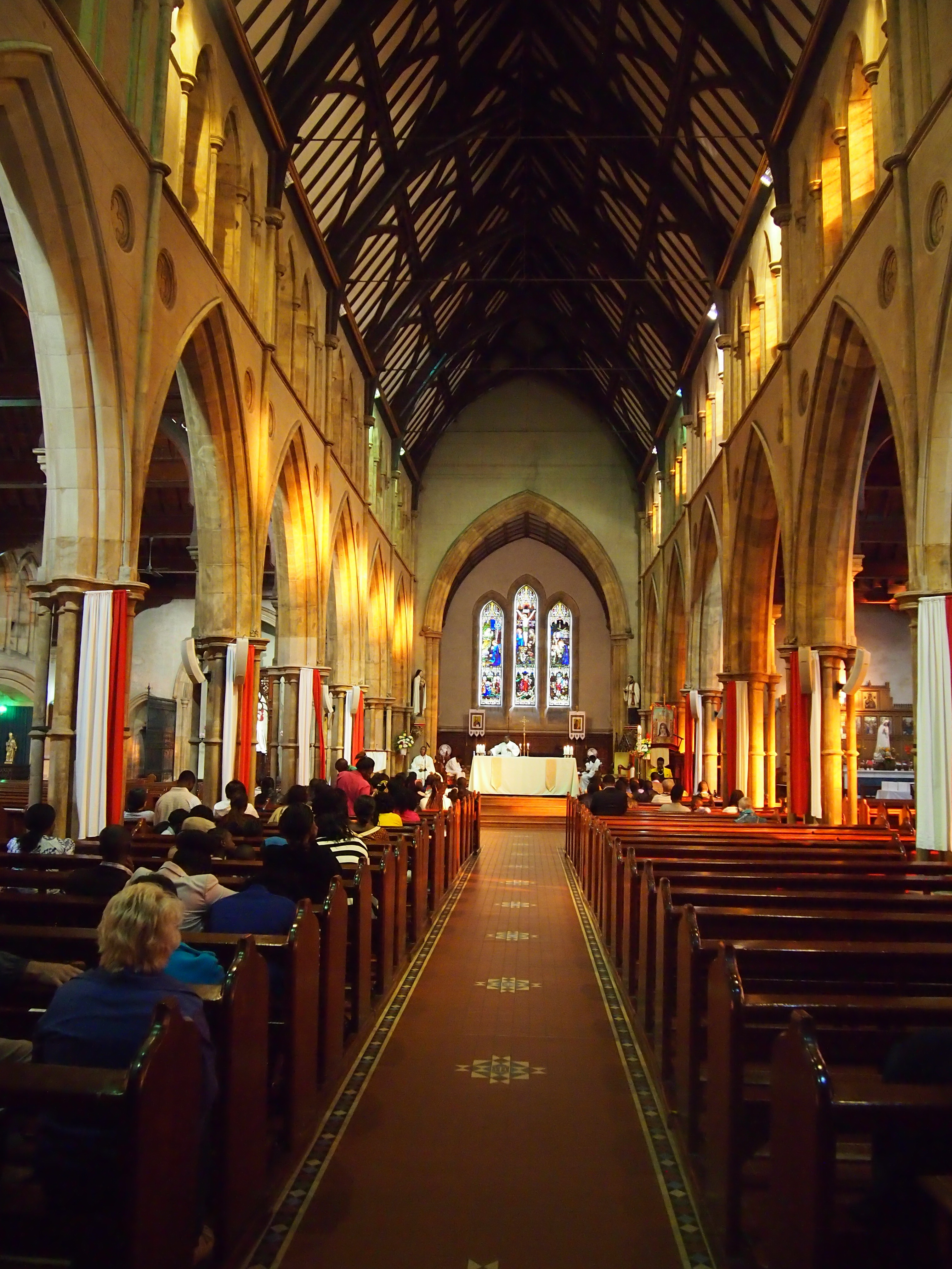 St Francis Xavier's Cathedral, Adelaide|St Francis Xavier Cathedral, Victoria Square, {:en:Adelaide|Adelaide - interior Original filename = P5041860.JPG